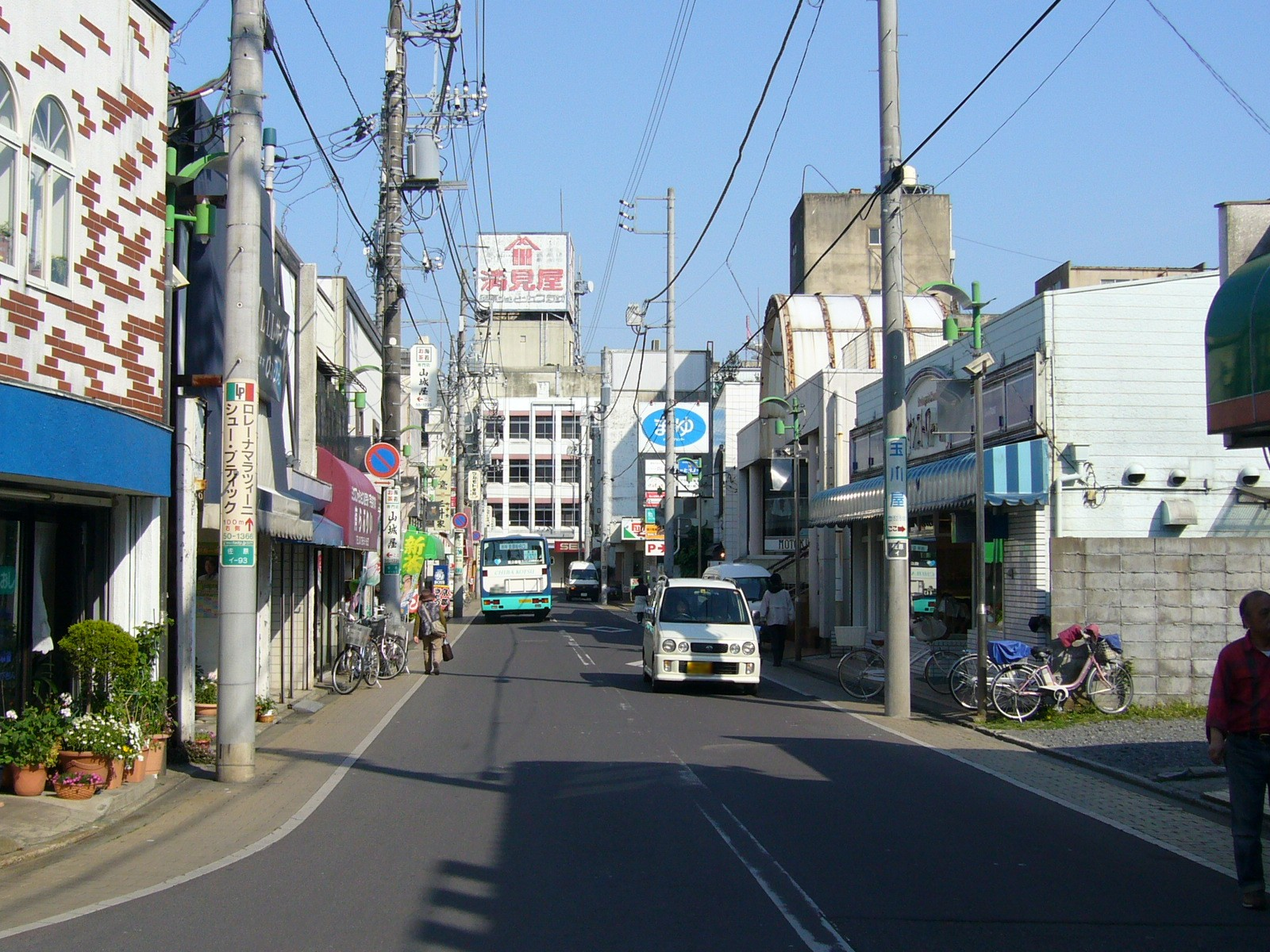 chiba prefectural route36,sawara,katori-city,japan